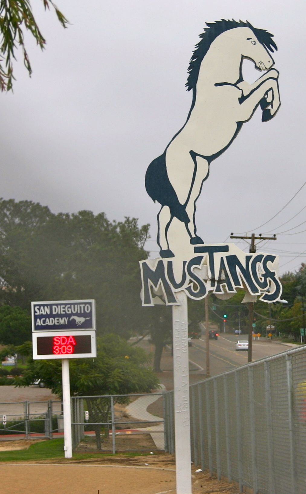 San Dieguito Academy Object location33° 02′ 11.01″ N, 117° 16′ 37.89″ W